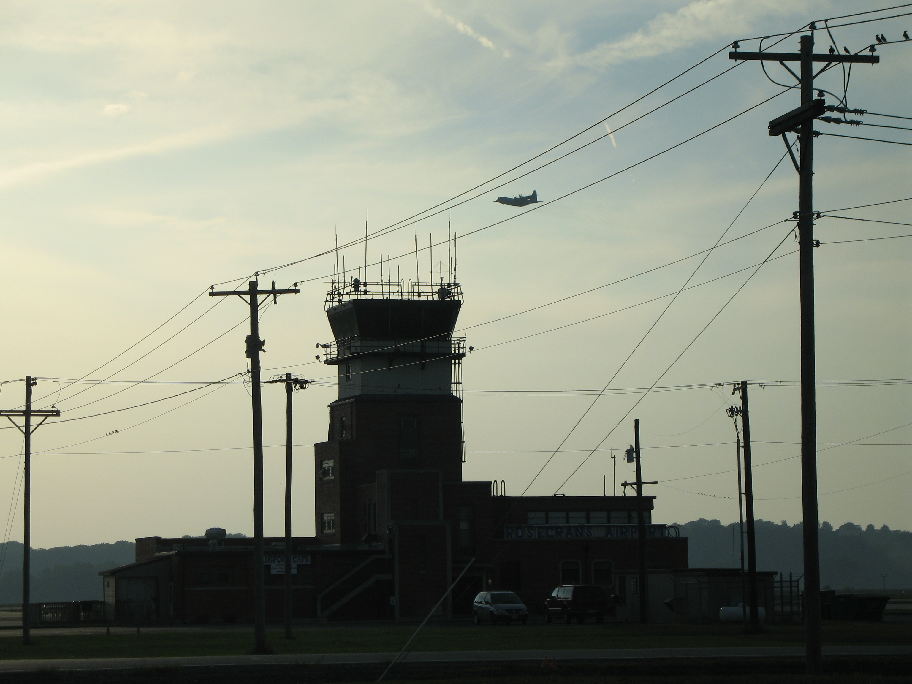 Rosecrans Airport in St. Joseph, Missouri (USA). A U.S. Air Force Lockheed C-130H Hercules from the 180th Airlift Squadron, 139th Airlift Wing, Missouri Air National Guard, is approaching the airport.